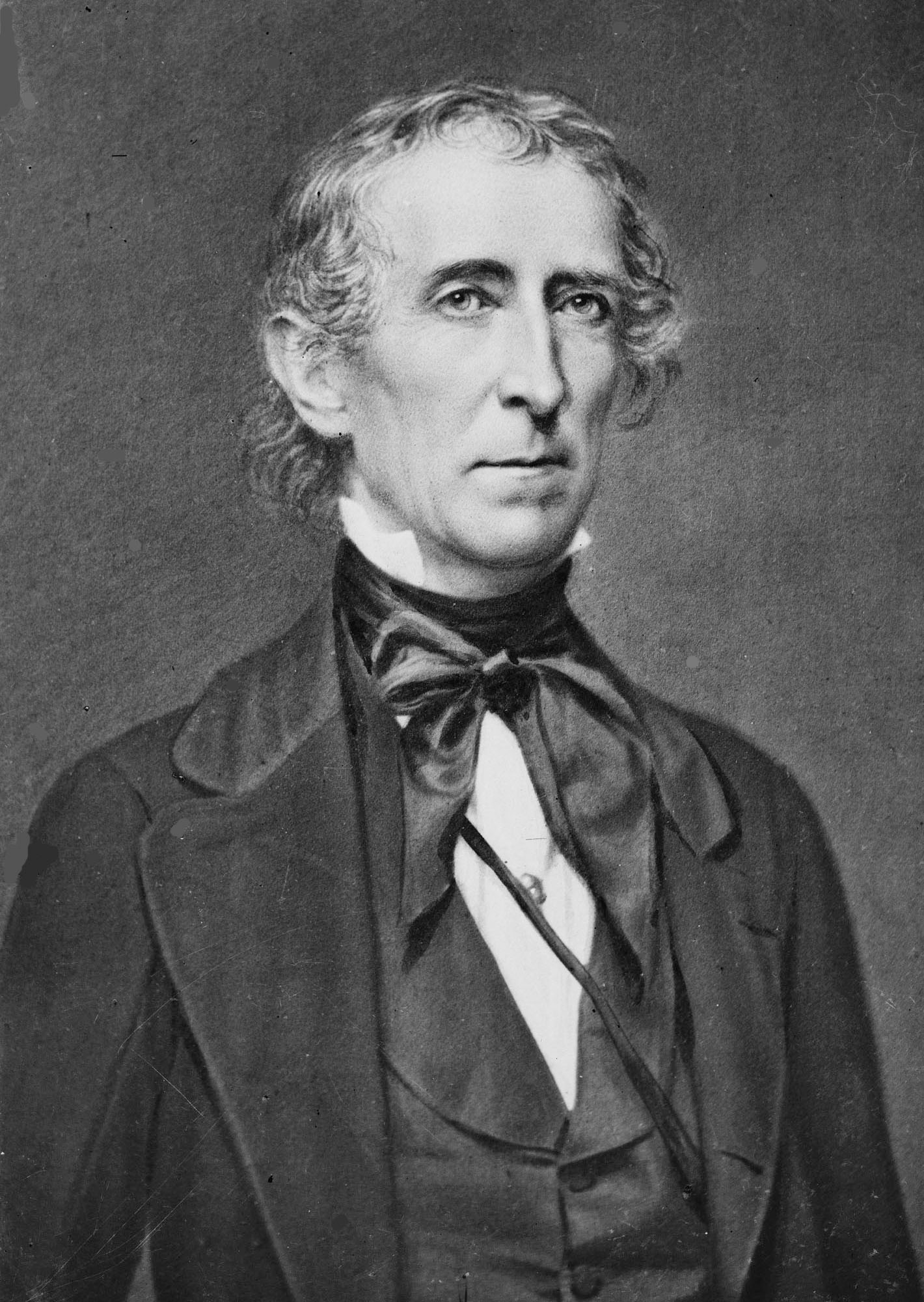 "President John Tyler, half-length portrait, facing right." Brady-Handy Collection. Reproduction of a photographic print.